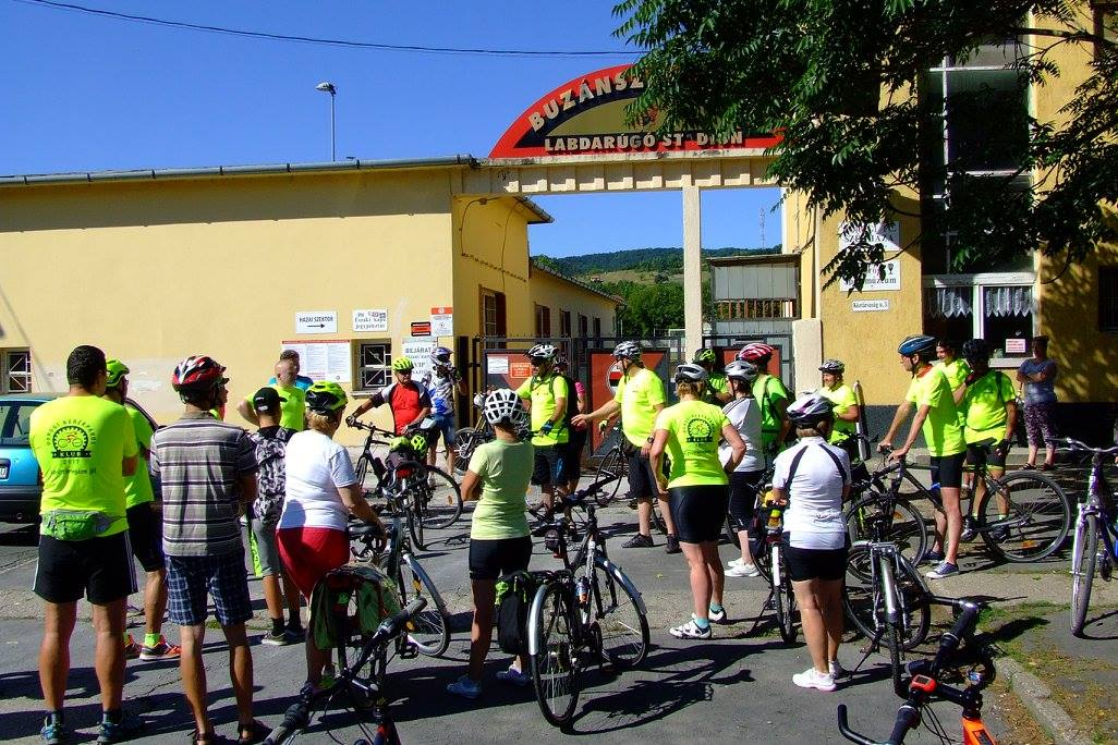 The bicycle sport is very popular in the town. The official reunion realized again with many members in 2017.